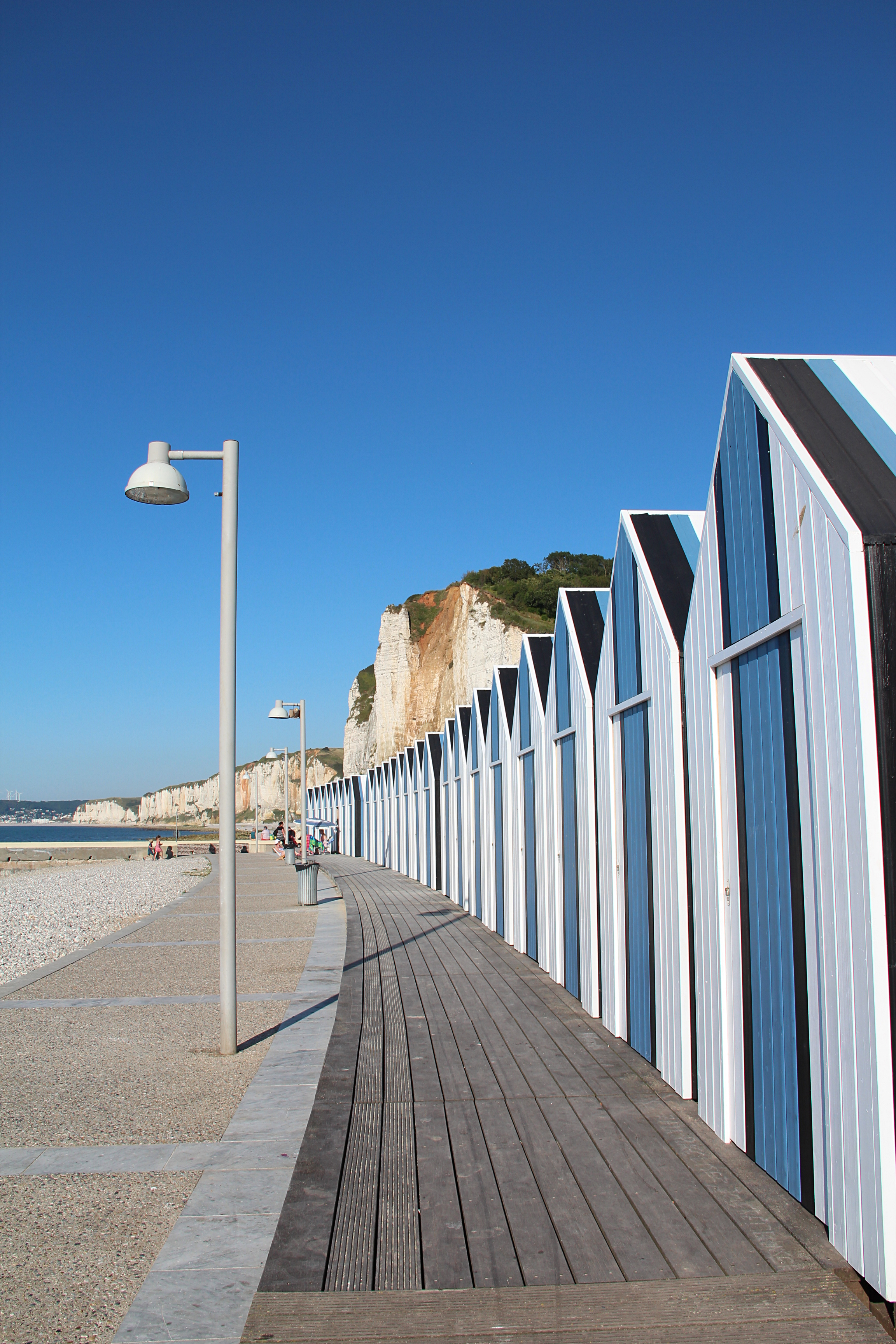 Yport (Seine-Maritime - France), the beach huts and cliffs upstream.